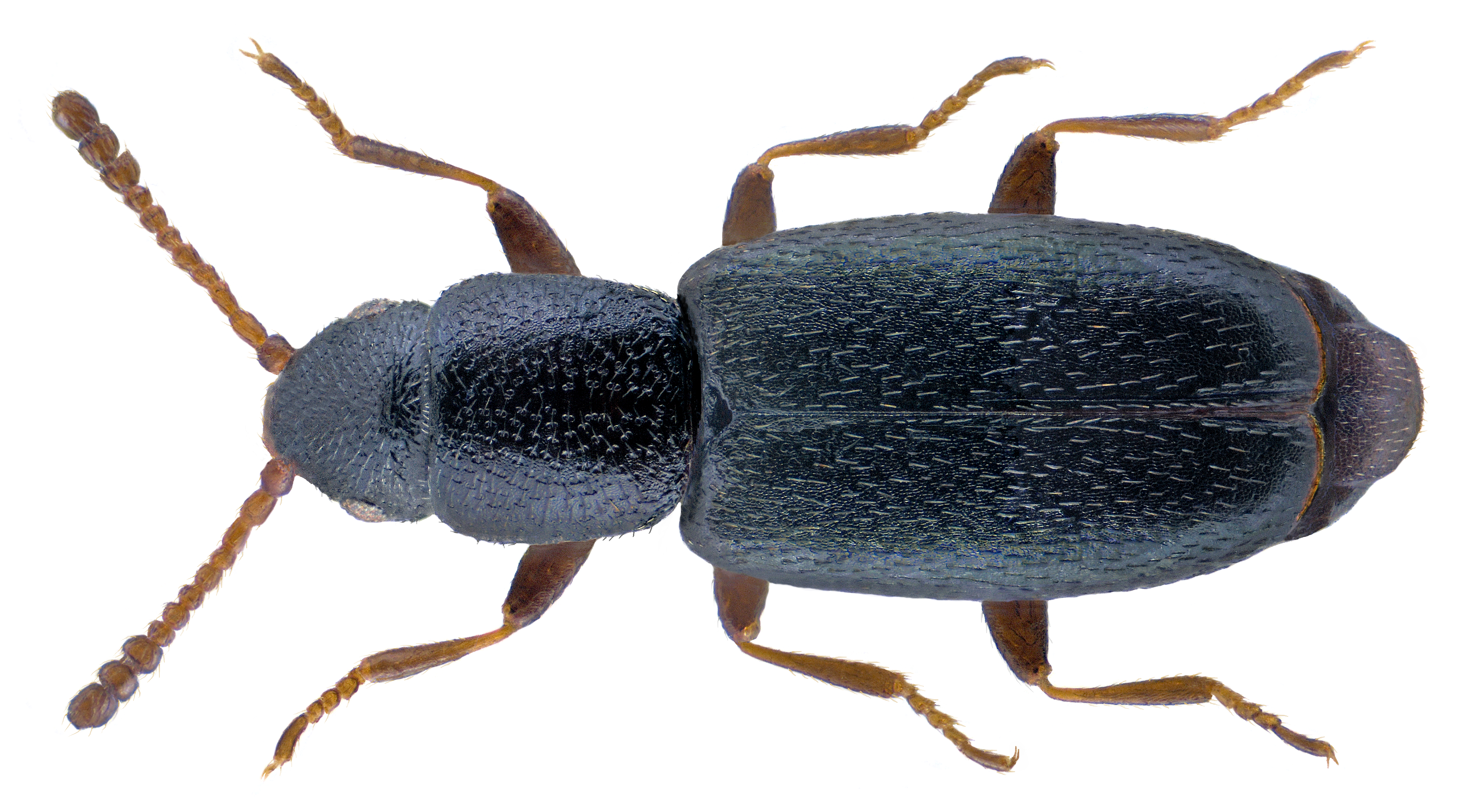 Hypocoprus latridioides Motschulsky, 1839 Family: Cryptophagidae Size: 1.2 mm (1.0 to 1.2 mm) Origin: Europe Ecology: In sandy areas, on coasts, under dry dung and in ants Location: England, Sussex, Rye Harbour E leg.det. A.J.Allen, 18.IX.2016; Coll. A.J.Allen Photo: U.Schmidt, 2018